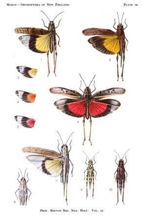 Insects.